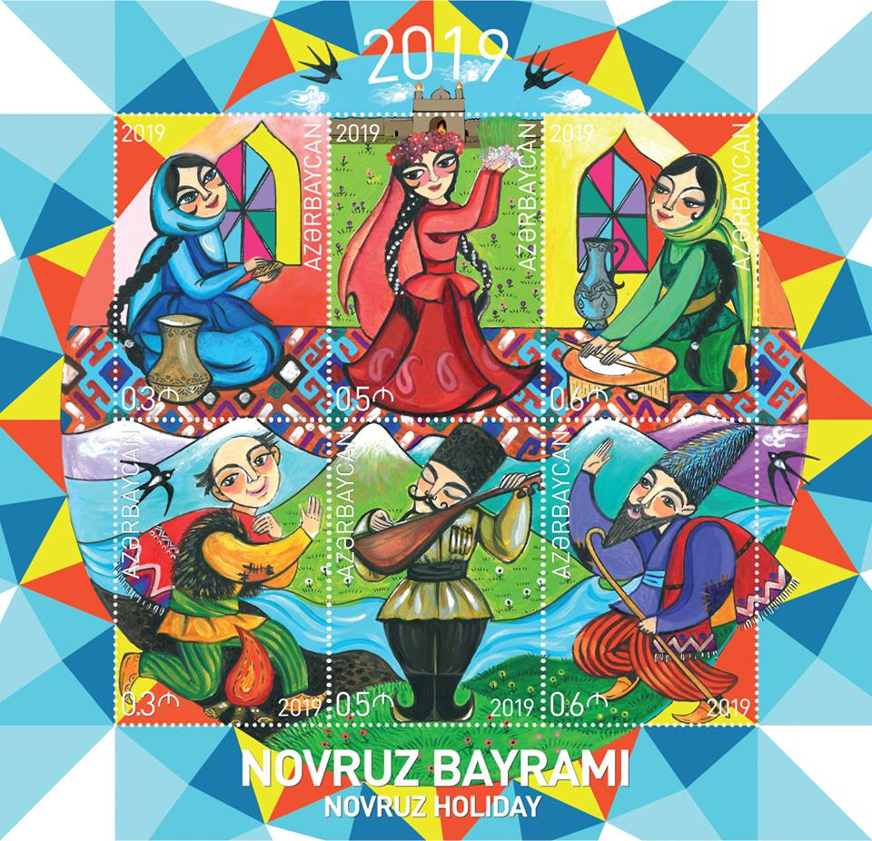 Novruz Celebration-2019 Date of issue:19 mart 2019 Catalog number: 1527-1532 Small sheet of 6 stamps Sheet size: 114x110 mm Stamp size: 28x40 mm Stamps included in to sheet: №1527. Girl with a jug №1528. Spring girl №1529. Girl rolling lavash №1530. Kechal №1531. Ashug №1532. Kosa Round Hole Perforation, 12 ½ Artist: Narmin Abdullayeva Design: Anar Mustafayev Printed by Bobruysk Integrated Printing House, Bobruysk city, Belarus Circulation: 30 000 sheets FDC: 200